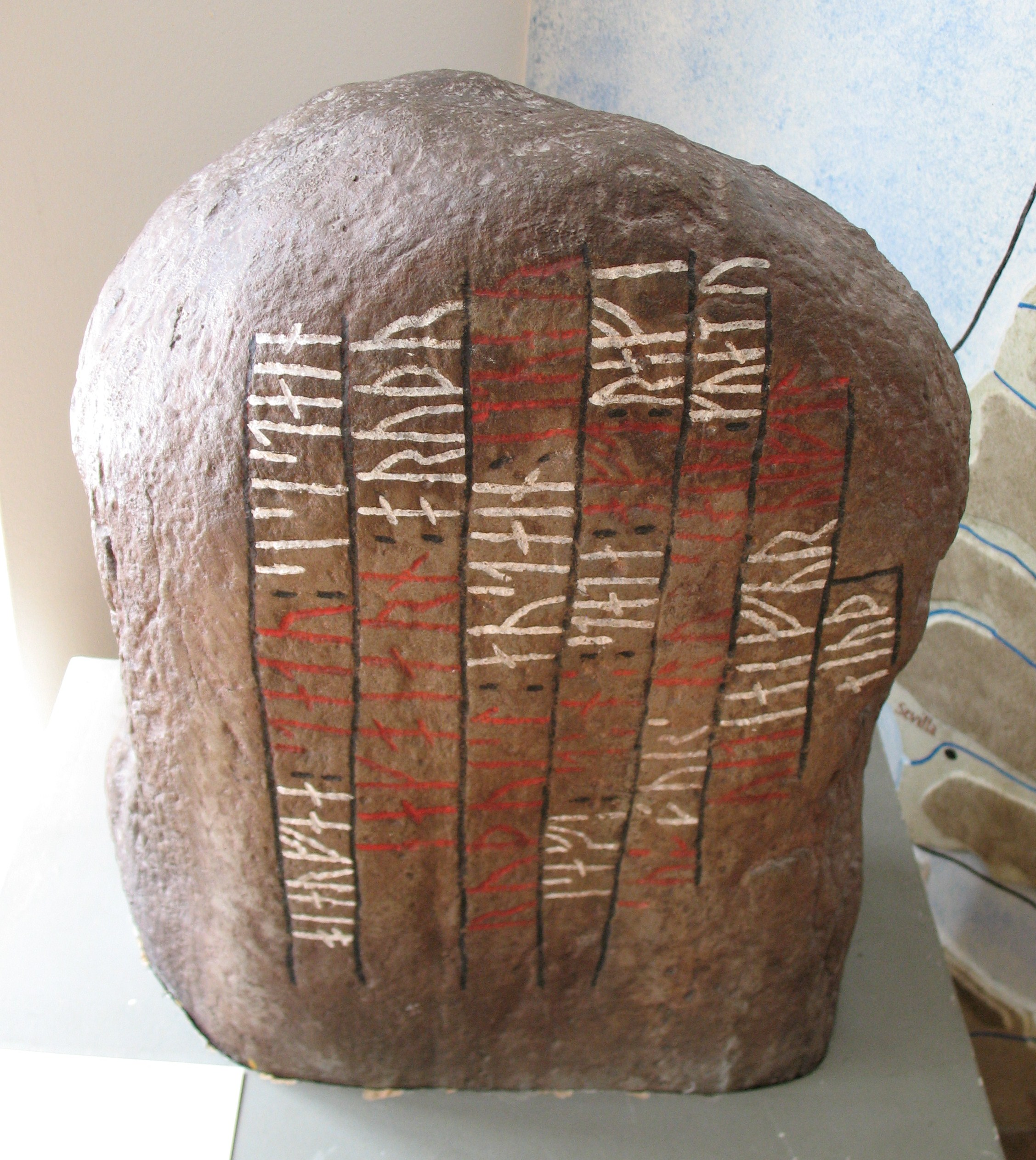 stone